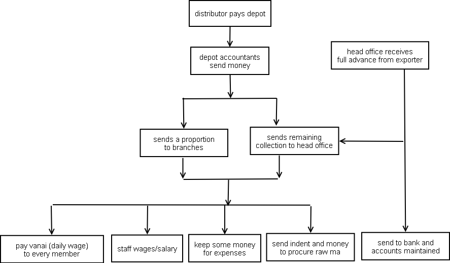 Collection flowchart of Shri Mahila Griha Udyog Lijjat Papad, based on [1]